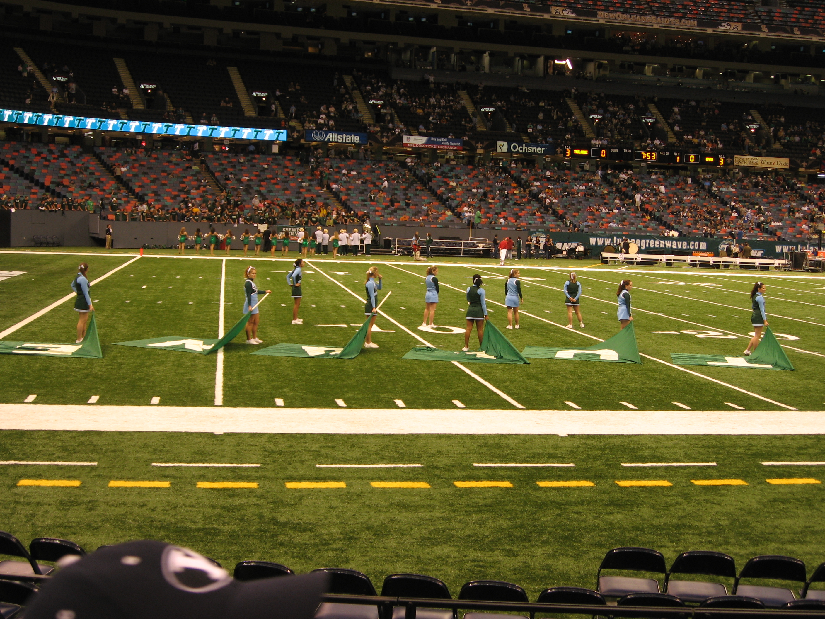 The Tulane Green Wave football team represents Tulane University in the sport of American football. The Green Wave compete in the Football Bowl Subdivision (FBS) of the National Collegiate Athletic Association (NCAA) as a member of the West Division of Conference USA (C-USA). The football team is currently coached by Curtis Johnson and plays its home games off-campus in the Mercedes-Benz Superdome. In 2011, Tulane announced it would build a new on-campus stadium in time for the 2014 season. On July 1, 2014, Tulane will leave Conference USA and join the American Athletic Conference in all sports.